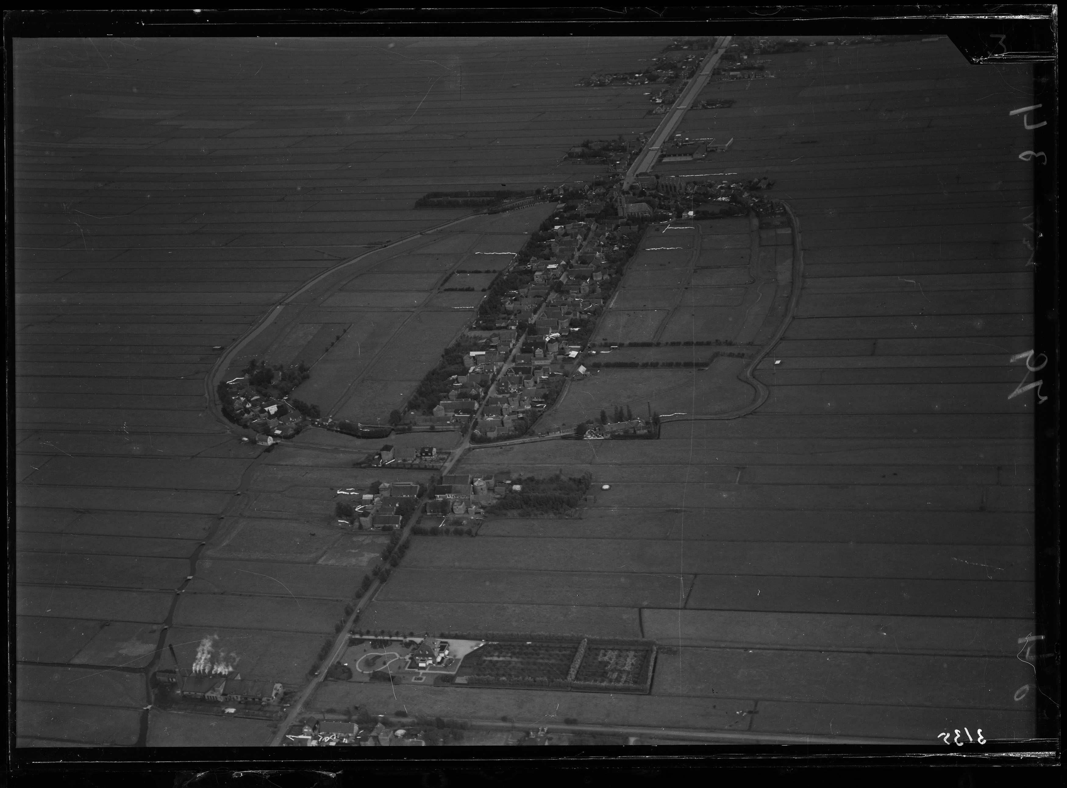 Aerial photograph of Bunschoten, The Netherlands